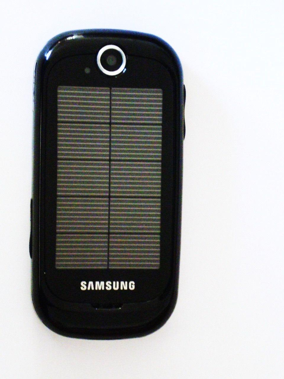 Samsung GT-S7550 Blue Earth back